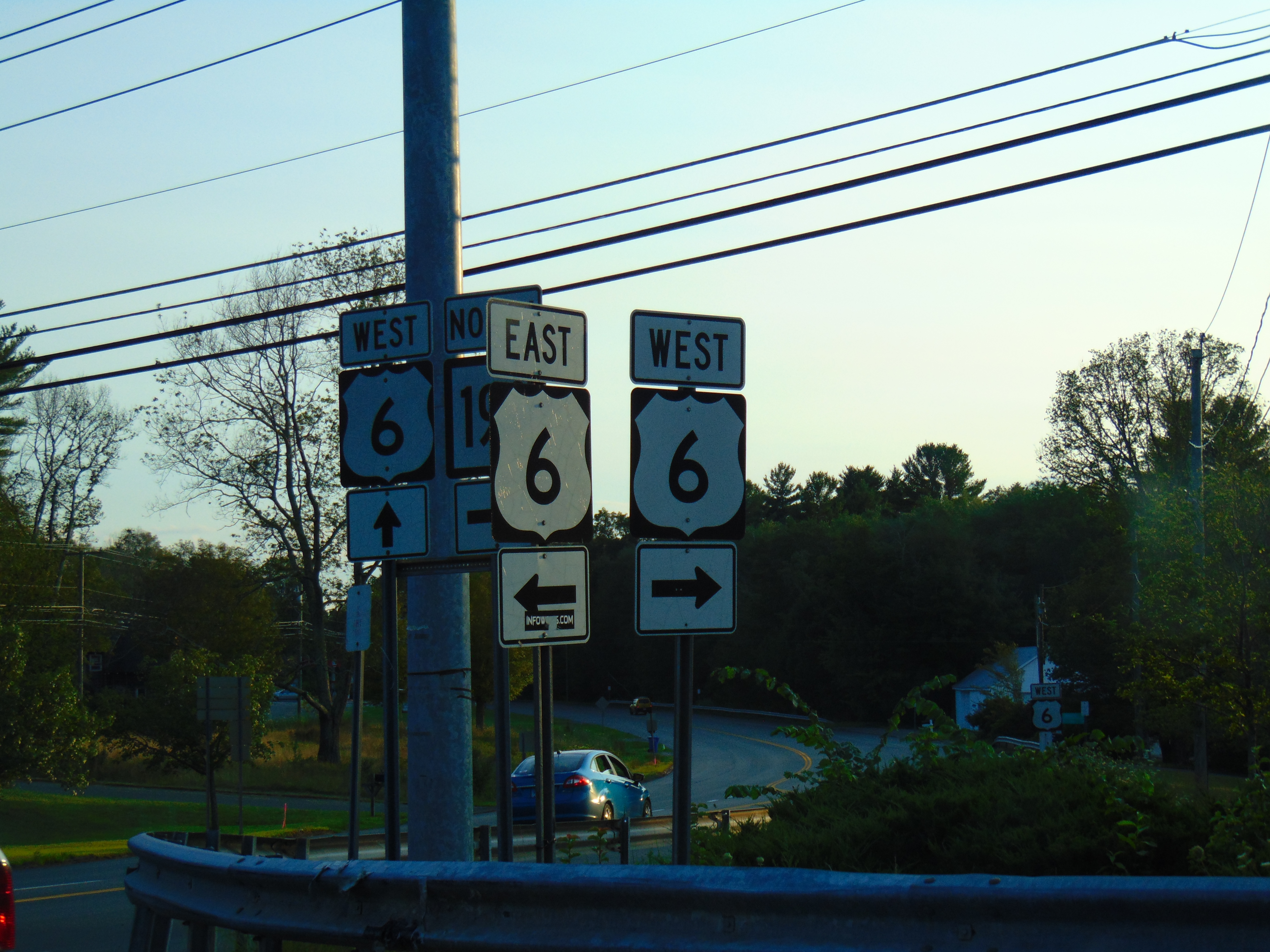 CT 198 at US 6 in Chaplin, Connecticut. This is CT 198's southern end. (nabbed from my flickr)